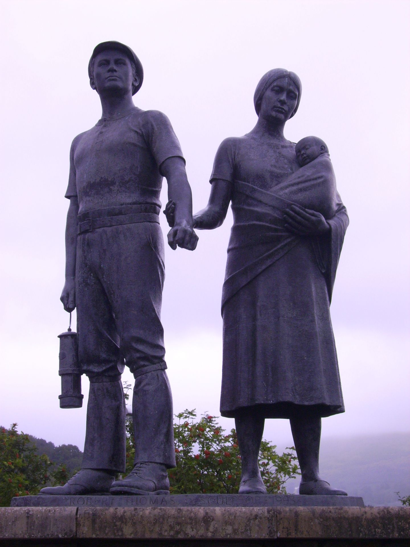 Commemorative statue to the Miners of the Rhondda, Sculptor: Robert Thomas.